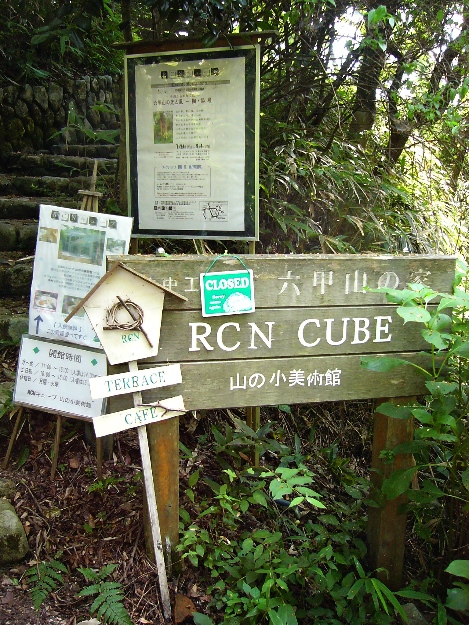 At RCN_CUBE in Mount Rokko, Kobe, Hyogo prefecture, Japan